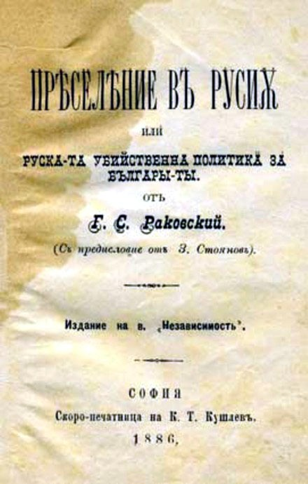 Cover of "Migration in Russia or Russian murderous policy for Bulgarians"